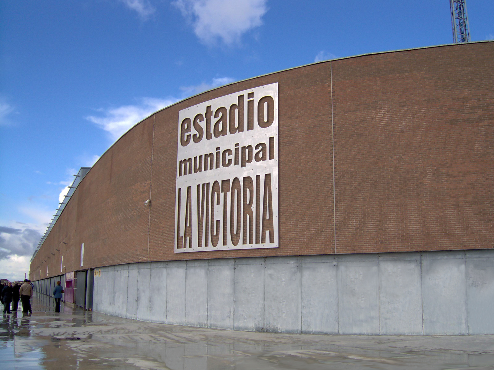 Nuevo la Victoria Stadium, Jaén (Spain). Picture taken by Johnbojaen on 19th February 2006, and modified by Kordas with Adobe Photoshop 7.